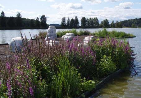 Project 'Veden Taika' by artist Jackie Brookner.